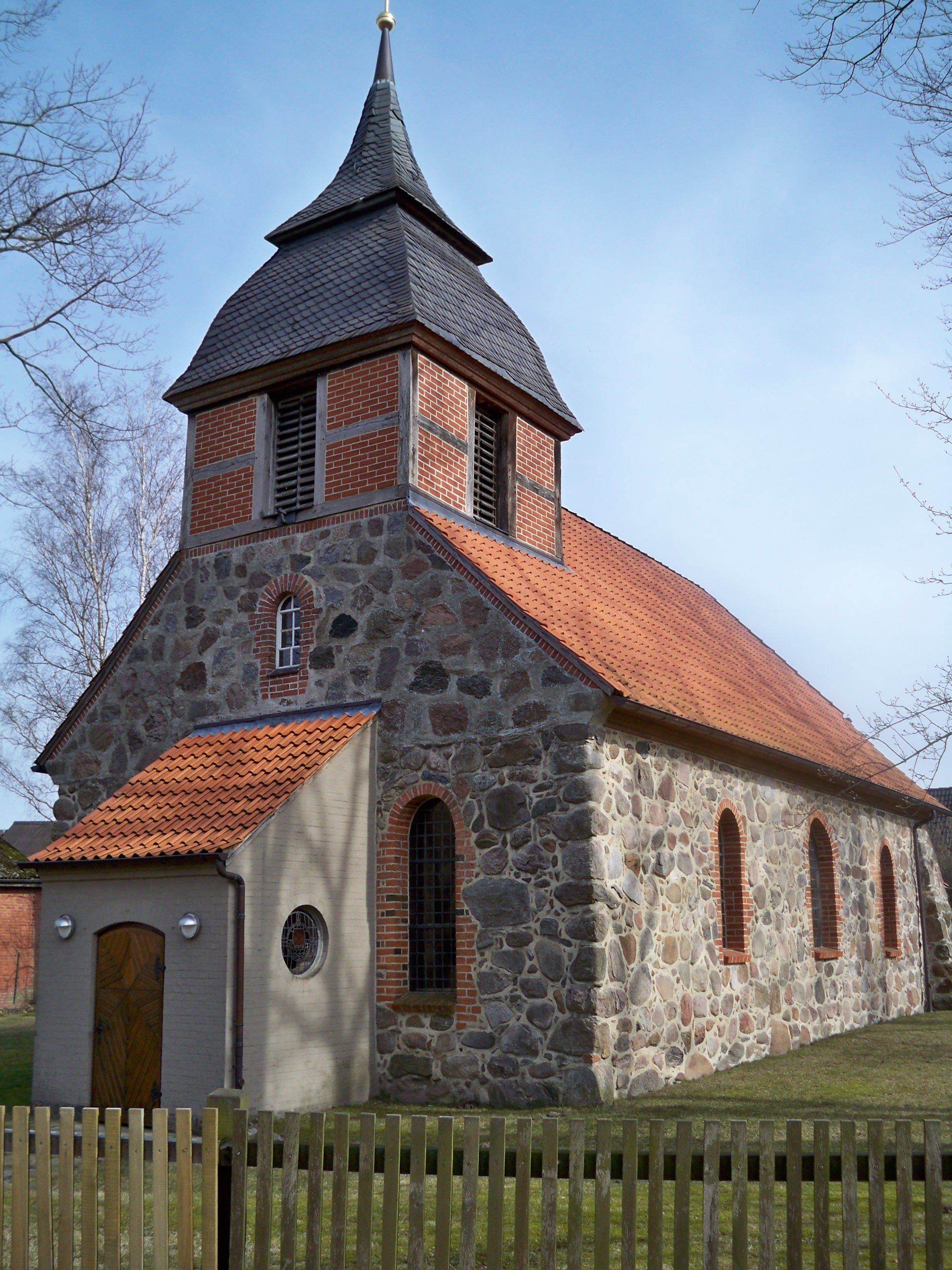 Zasenbeck, Lower Saxony, church